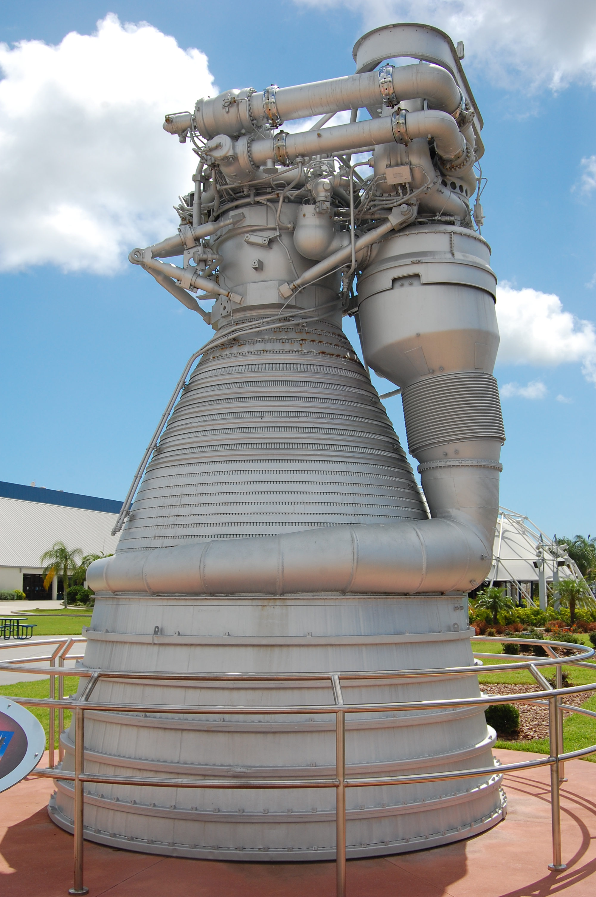 F-1 rocket engine on display at Kennedy Space Center Visitor Complex.